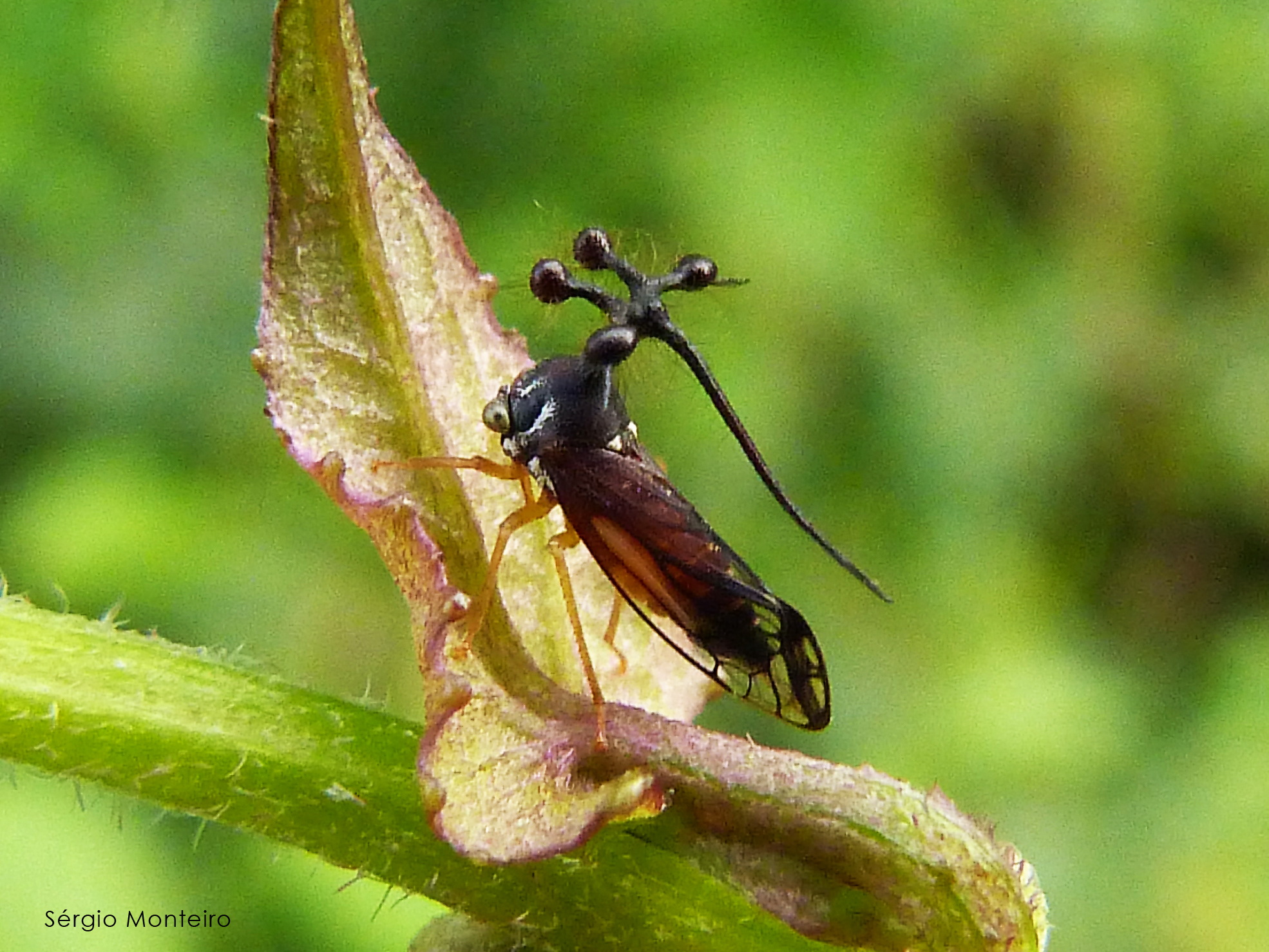 The members of the family Membracidae - like this Bocydium globulare - are known for intricate forms of adornment of their heads. Spoted at Barigui Park, Curitiba, Parana, Brazil.